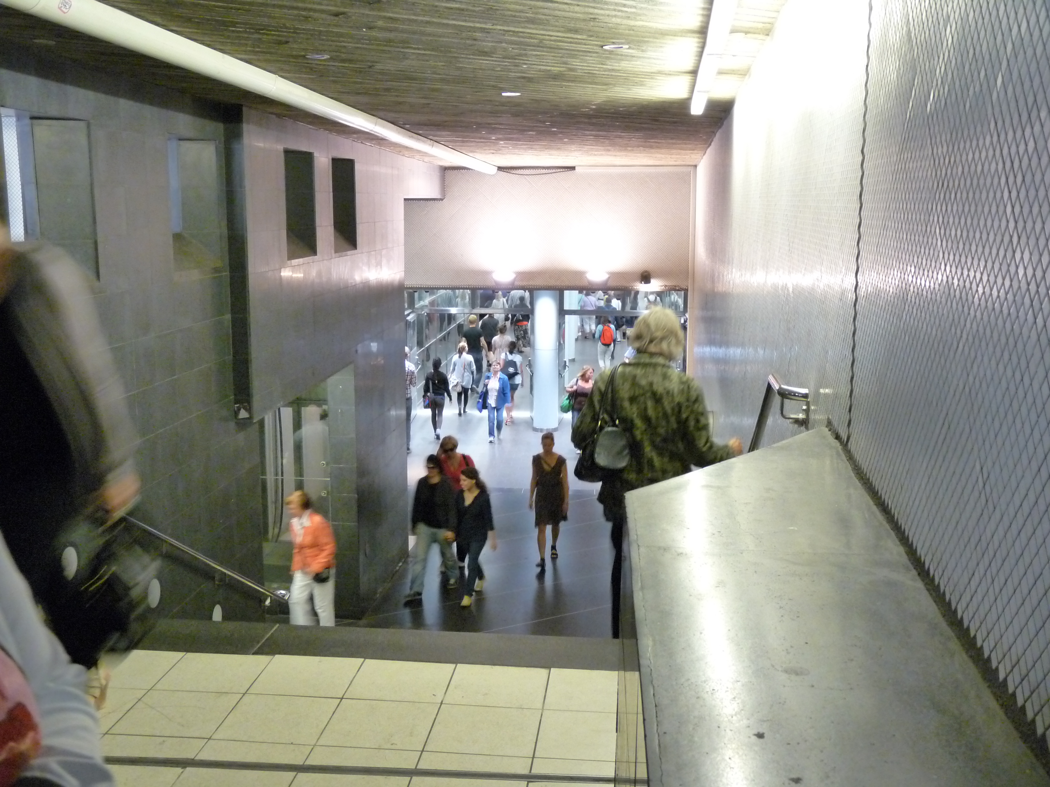 Skanstull metro station